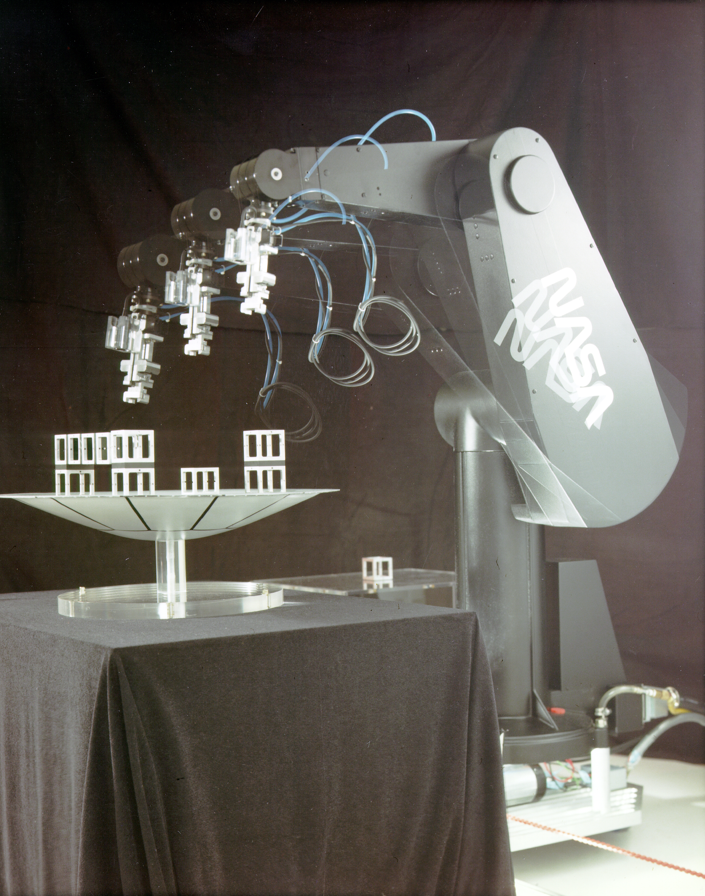 The Puma Robotic Sensor Arm for use in Virtual Reality development and studies at the NASA Ames Research Center, Mountain View, California